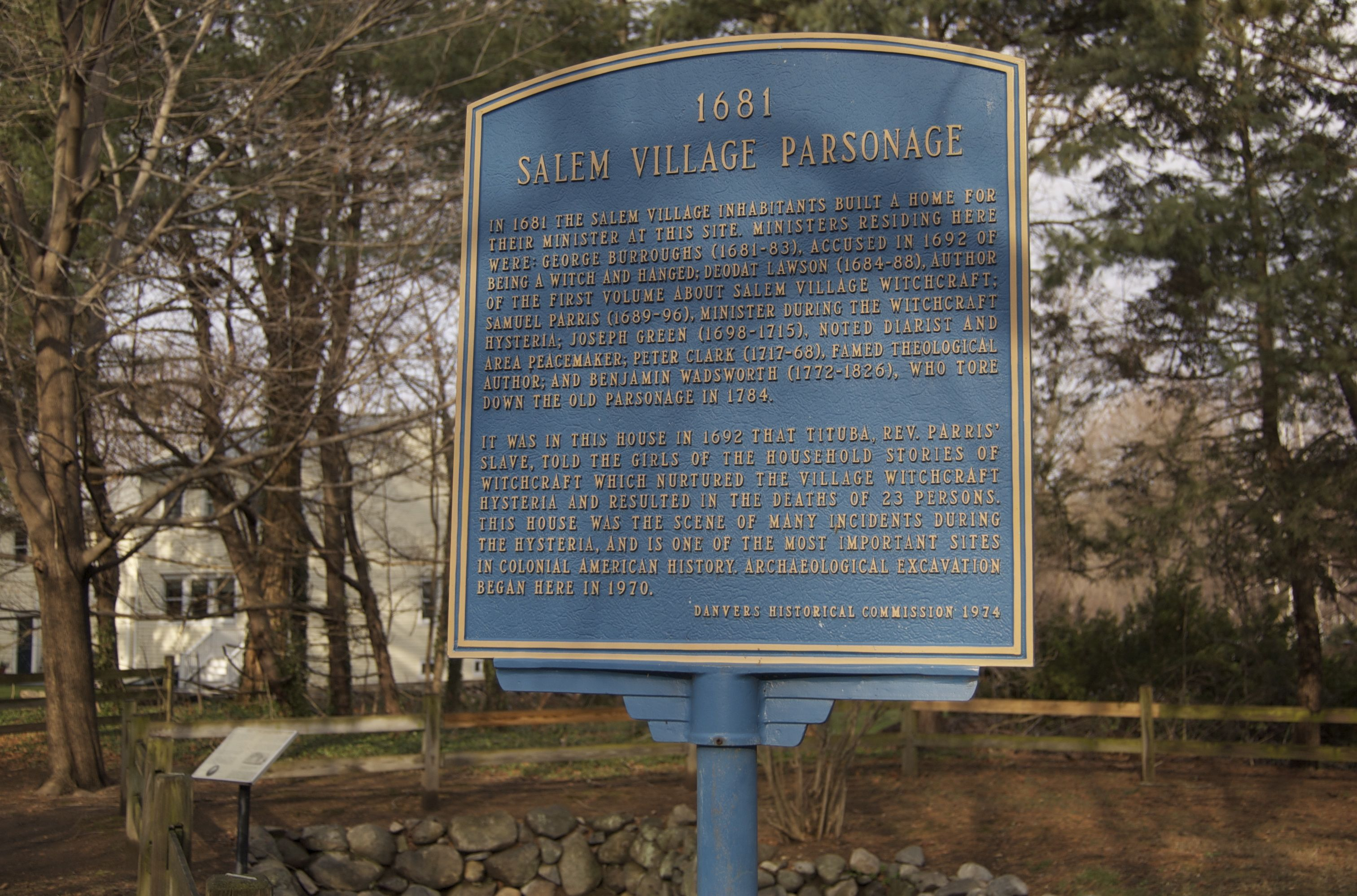 Archeological site in Danvers, Massachusetts, of buildings that were at the center of the Salem witch trials in 1692.